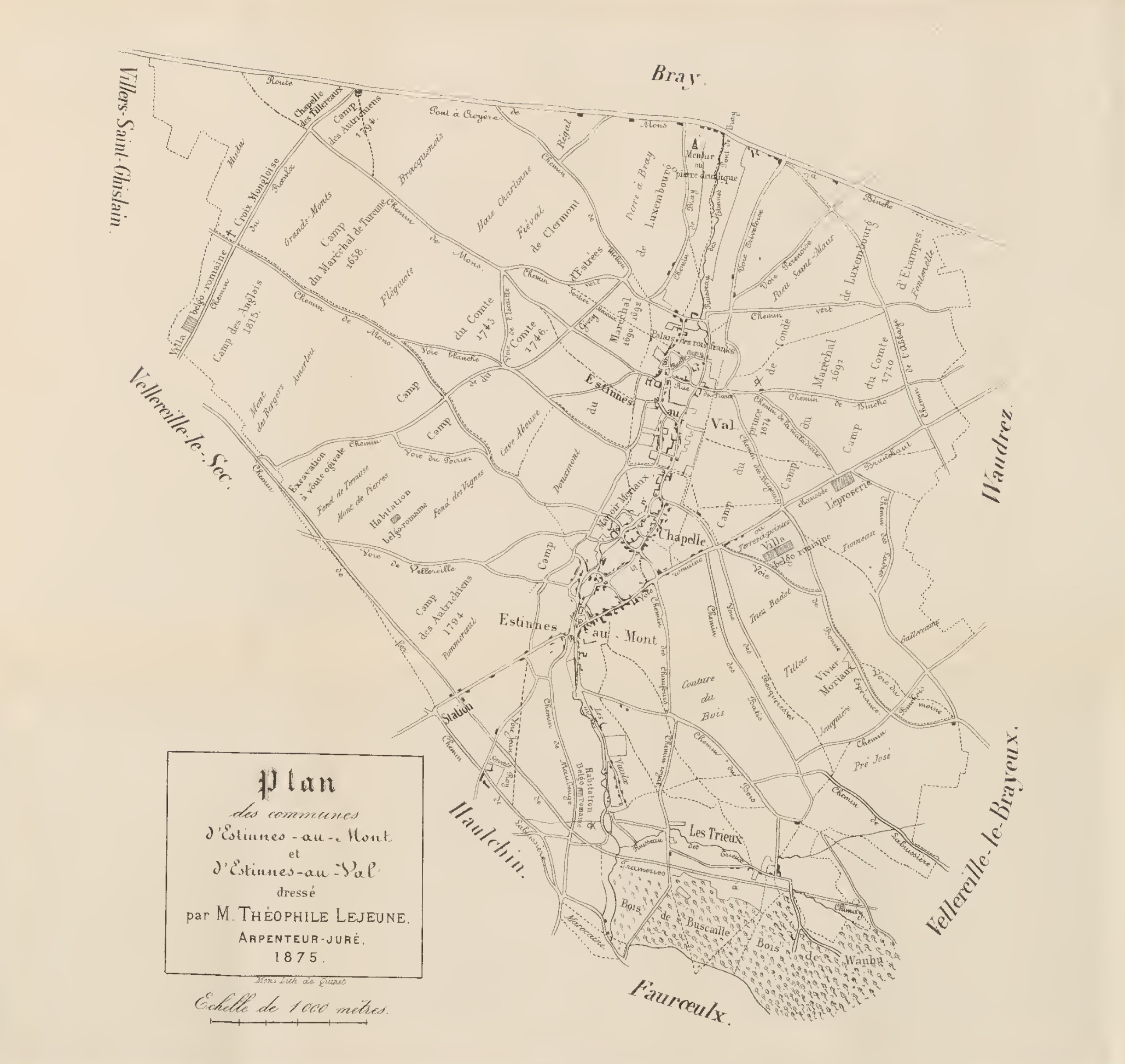 Map of the towns of Estinnes-au-Mont and Estinnes-au-Val erected by Mr. Théophile Lejeune, juryman surveyor. - 1875